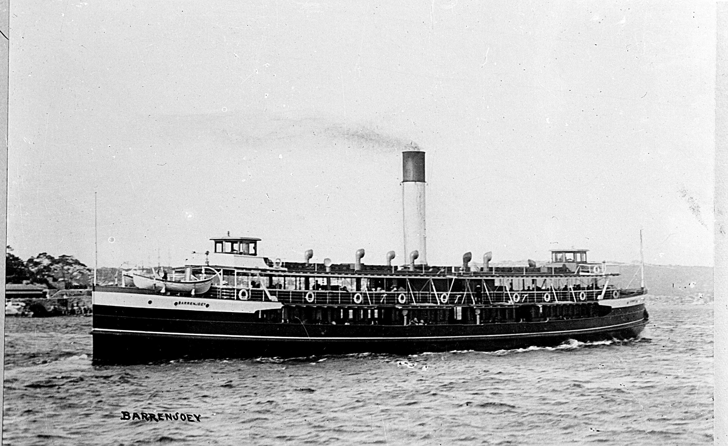 Manly ferry Barrenjoey (later North Head) on Sydney Harbour 1920s. Original open promenade deck. Built 1913 at Woolwich, Sydney. Short-length white timber railings around the wheelhouse, wheelhouses without cabins attached, and open promenade deck help date the picture.